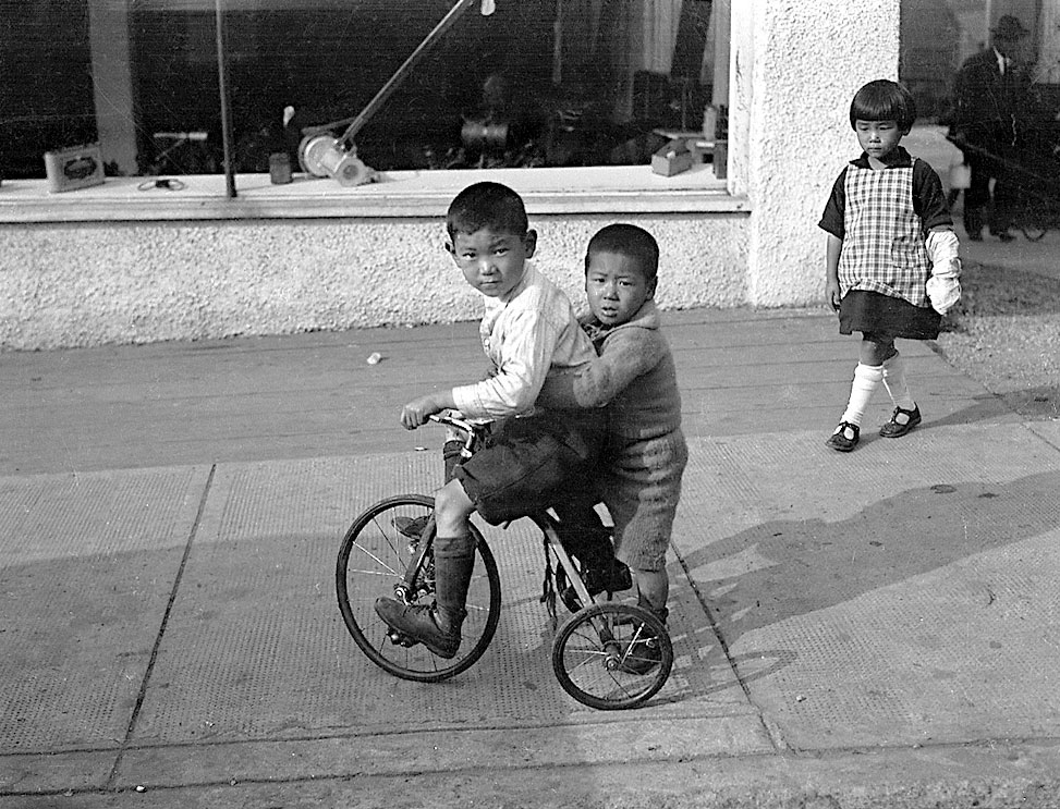 Two children on a tricycle in the Japanese-Canadian area of Vancouver, British Columbia, Canada.